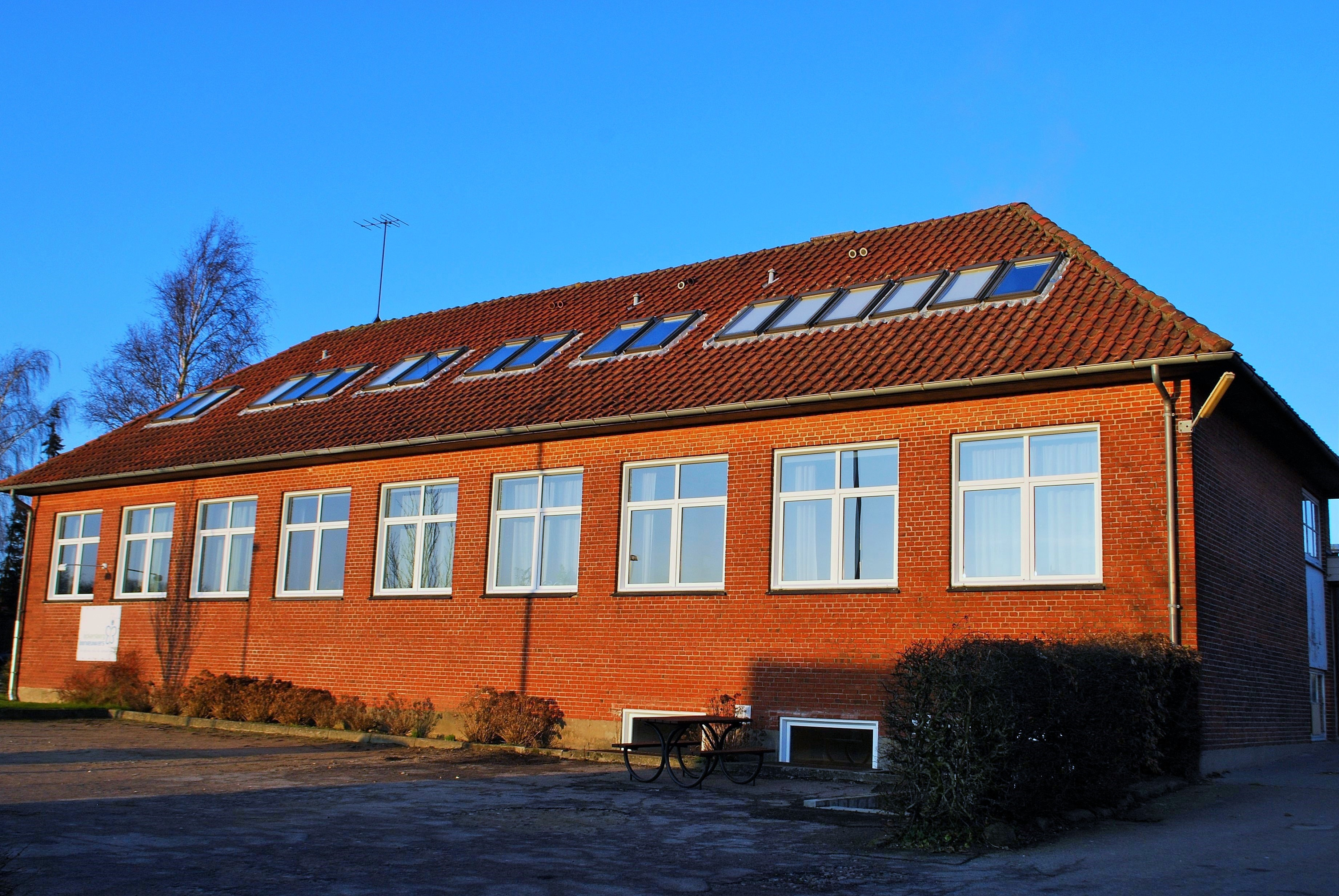 The private-School in Blans, Denmark